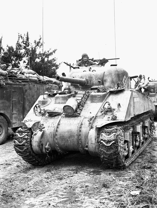 Major-General B.M. Hoffmeister, General Officer Commanding 5th Canadian Armoured Division, in the Sherman tank "Vancouver" near Castrocielo, Italy